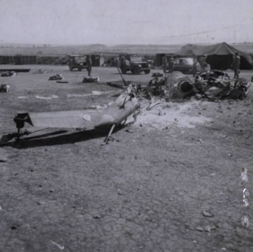 Destroyed helicopter at Camp Holloway, 7 February 1965